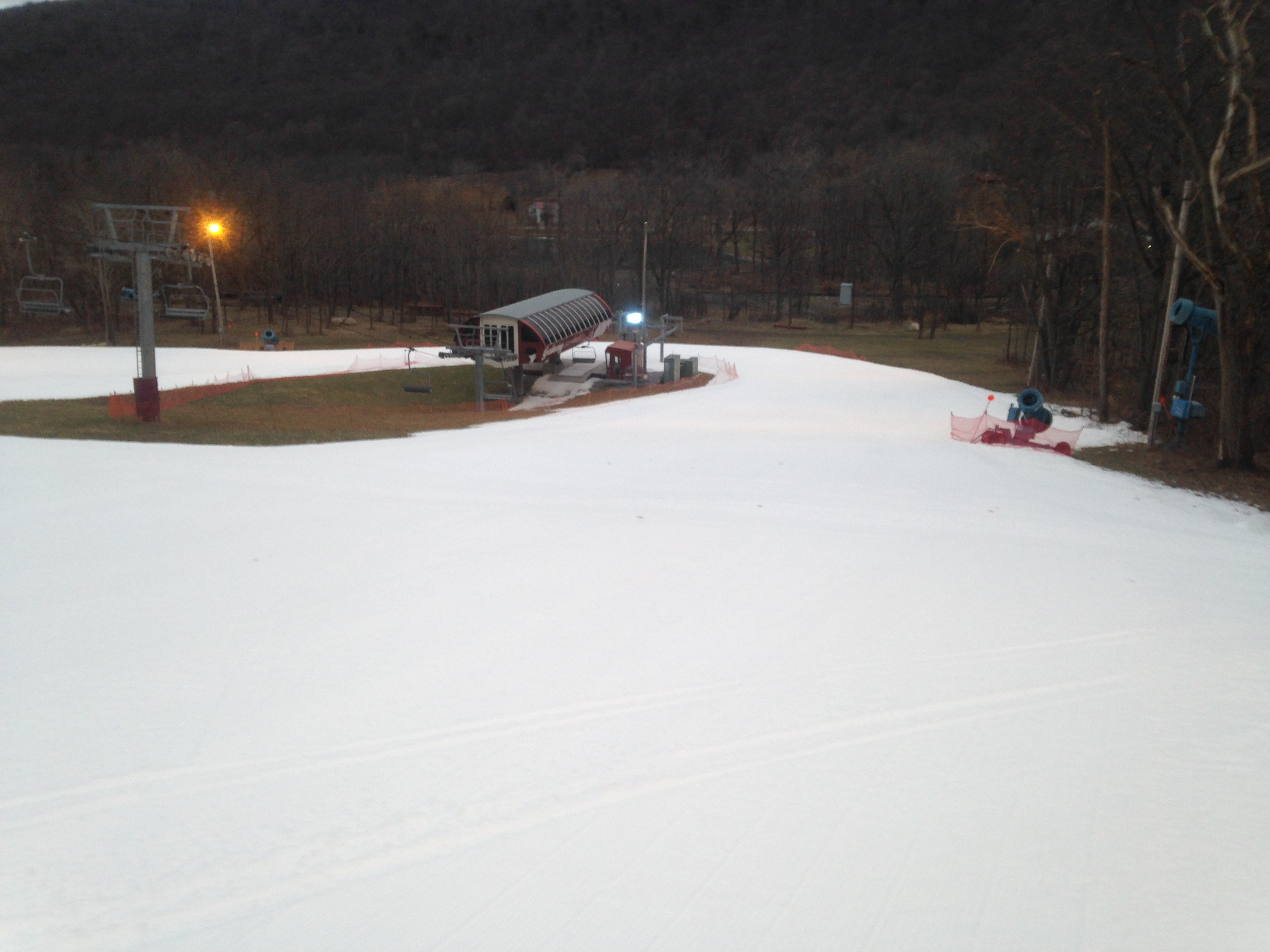 High speed chairlift at Bristol Mountain ski resort in NY. Only operates at peak times. Seen here in February of a very mild winter.